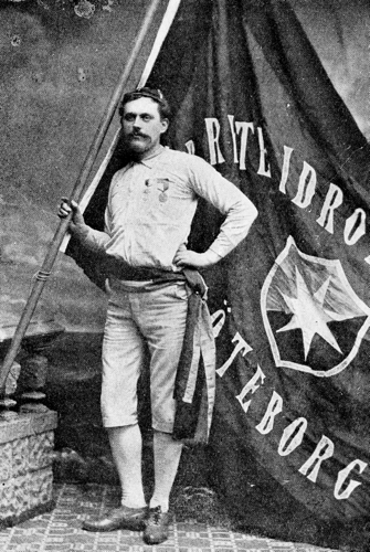 The founder of Örgryte IS Wilhelm Friberg with the flag of Örgryte around 1890